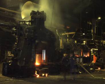 Dante's inferno - Kirkstall forge This was the large shed to the south of the water and my position is a best guess, especially as this area is now flat. This shed contained several hammers but these two were hard at work and quite spectacular. I think they were of eastern European construction (possibly Polish). Although working on compressed air these were essentially the same as steam hammers.